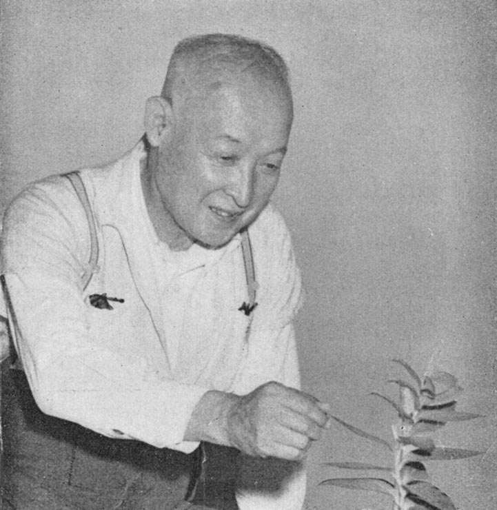 Portrait of Late Mr. Takenoshin Nakai (in Kagoshima, July 1952).